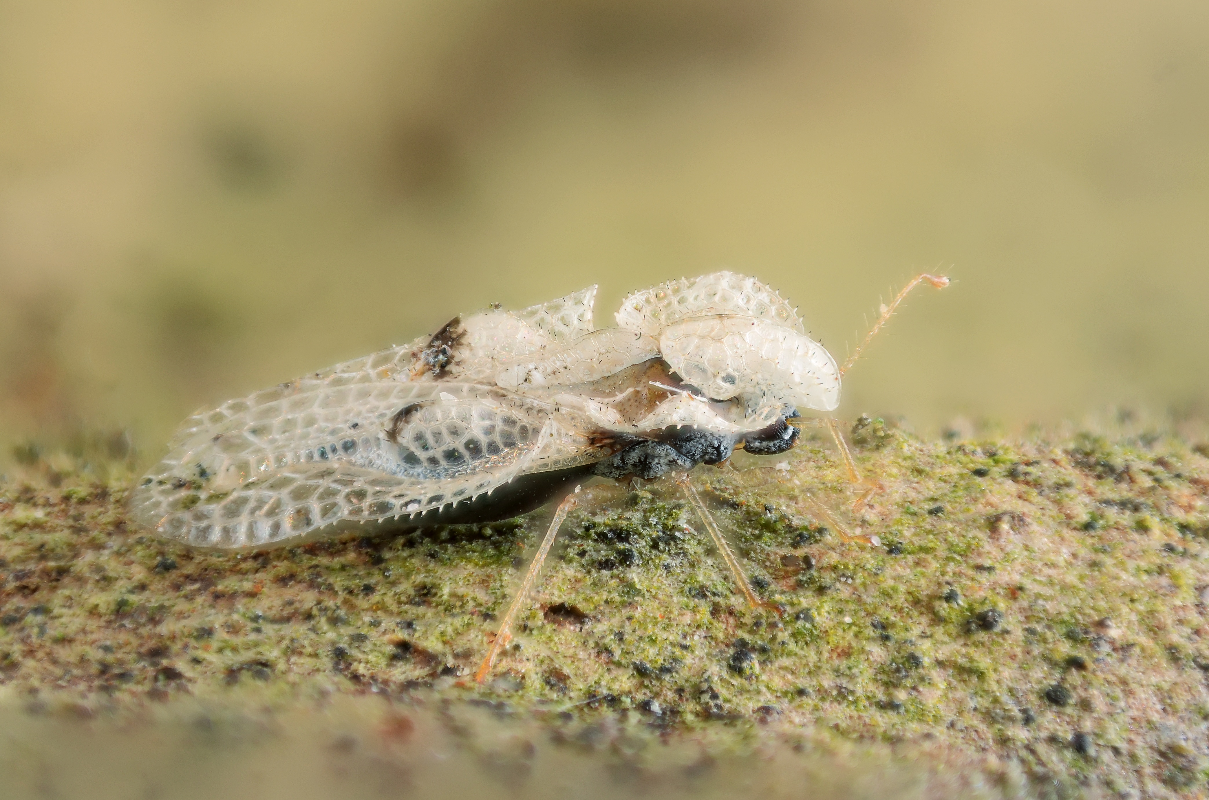 Corythucha ciliata (Hemiptera, Tingidae) Sycamore Lace Bug Scale : bug length ~ 3.8 mm Technical settings : - focus stack of 28 images - Leitz Photar 25mm objective at f/5.6 on bellow